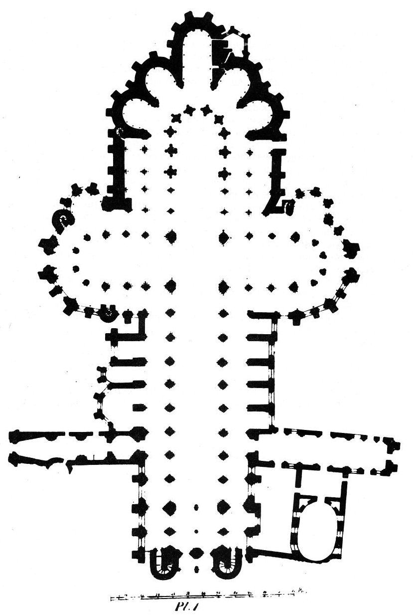 plan of former cathedral of Notre Dame (or Sainte Marie) in Cambrai, by Amédée Boileux in 1825